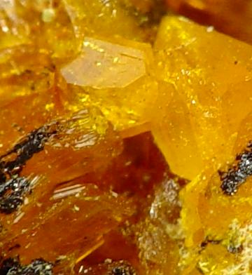 Becquerelite, Billietite Locality: Shinkolobwe Mine (Kasolo Mine), Shinkolobwe, Central area, Katanga Copper Crescent, Katanga (Shaba), Democratic Republic of Congo (Zaïre) (Locality at ) Size: thumbnail, 1.9 x 1.7 x 1.4 cm Billietite with Becquerelite SHARP, GEMMY crystals of this extremely rare species, textbook in form, to just under 2mm poke out from protected pockets in this small matrix. The billietite are the orange crystals, easily seen and eye-visible in every facert. Becquerelite occurs on this piece as unusually gemmy, transparent yellow crystals underelaying the Billietite. Both species are simply high quality crystals, and stunningly beautiful under a loupe. Although a small piece overall, it is highly significant. TYPE LOCALITY for both species